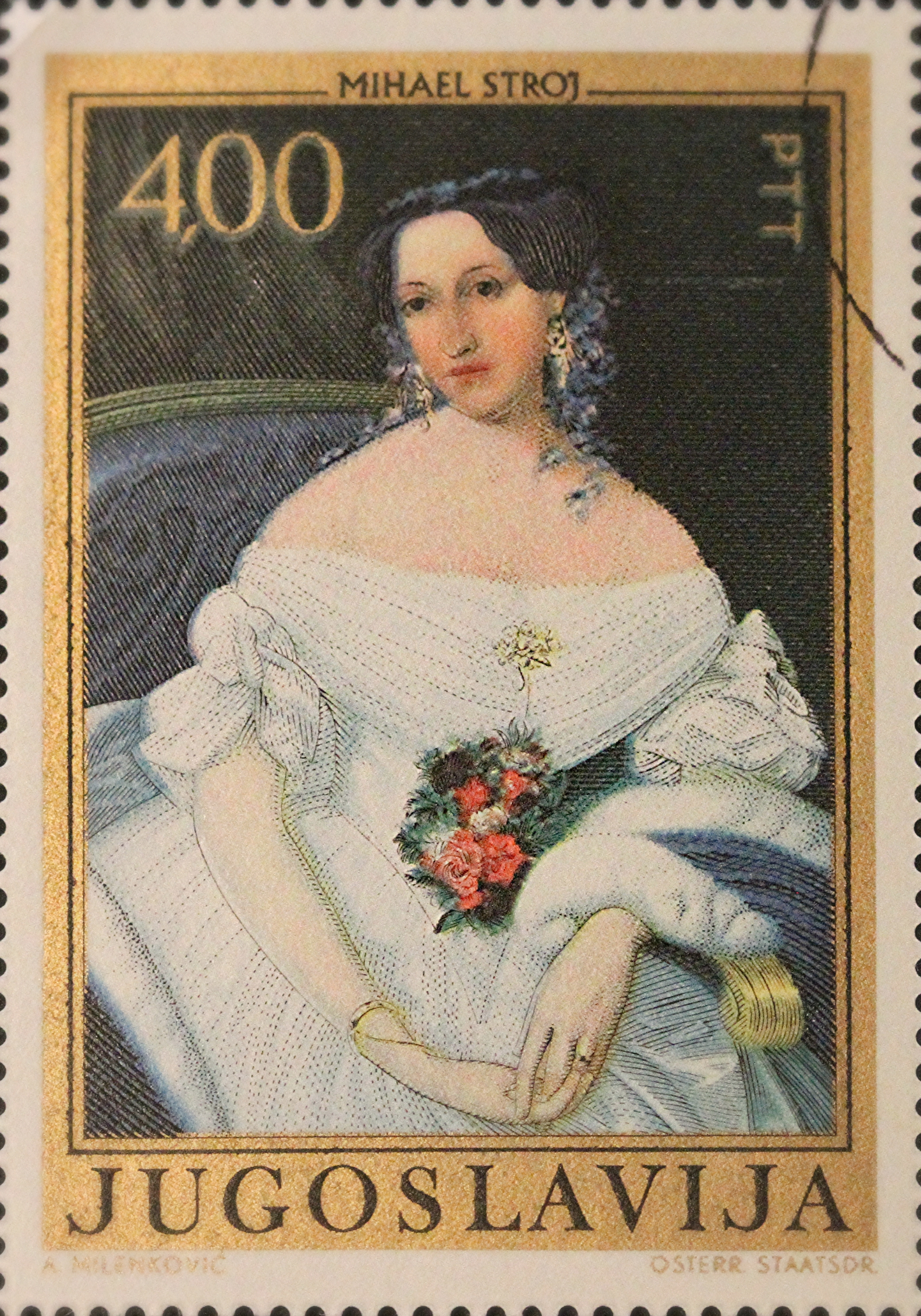 Yugoslavian stamp with painting by Mihael Stroj.